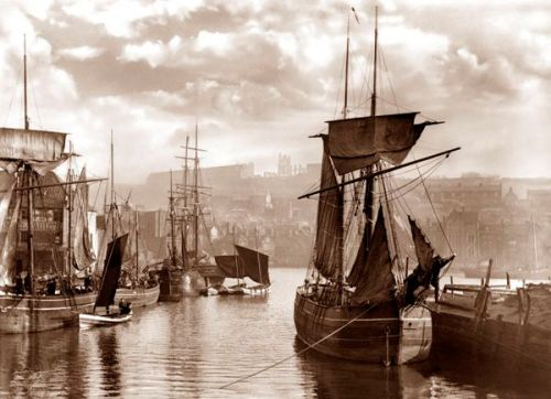 Whitby